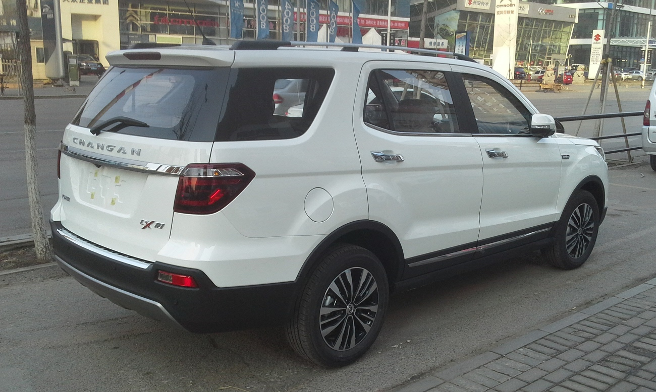 Chana CX70T photographed in Shenyang, Liaoning province, China.